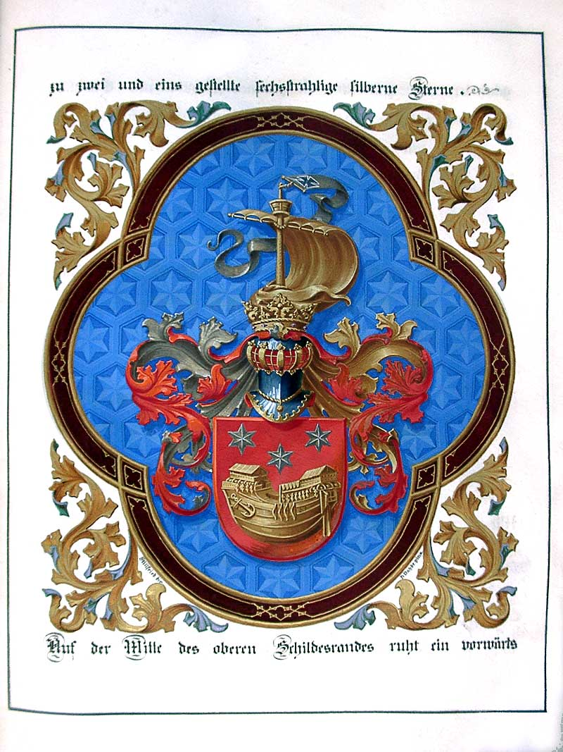 Family crest "von Werner" on page 3 of the patent of nobility for Carl Bartholomäus von Werner, dated 1st March 1876